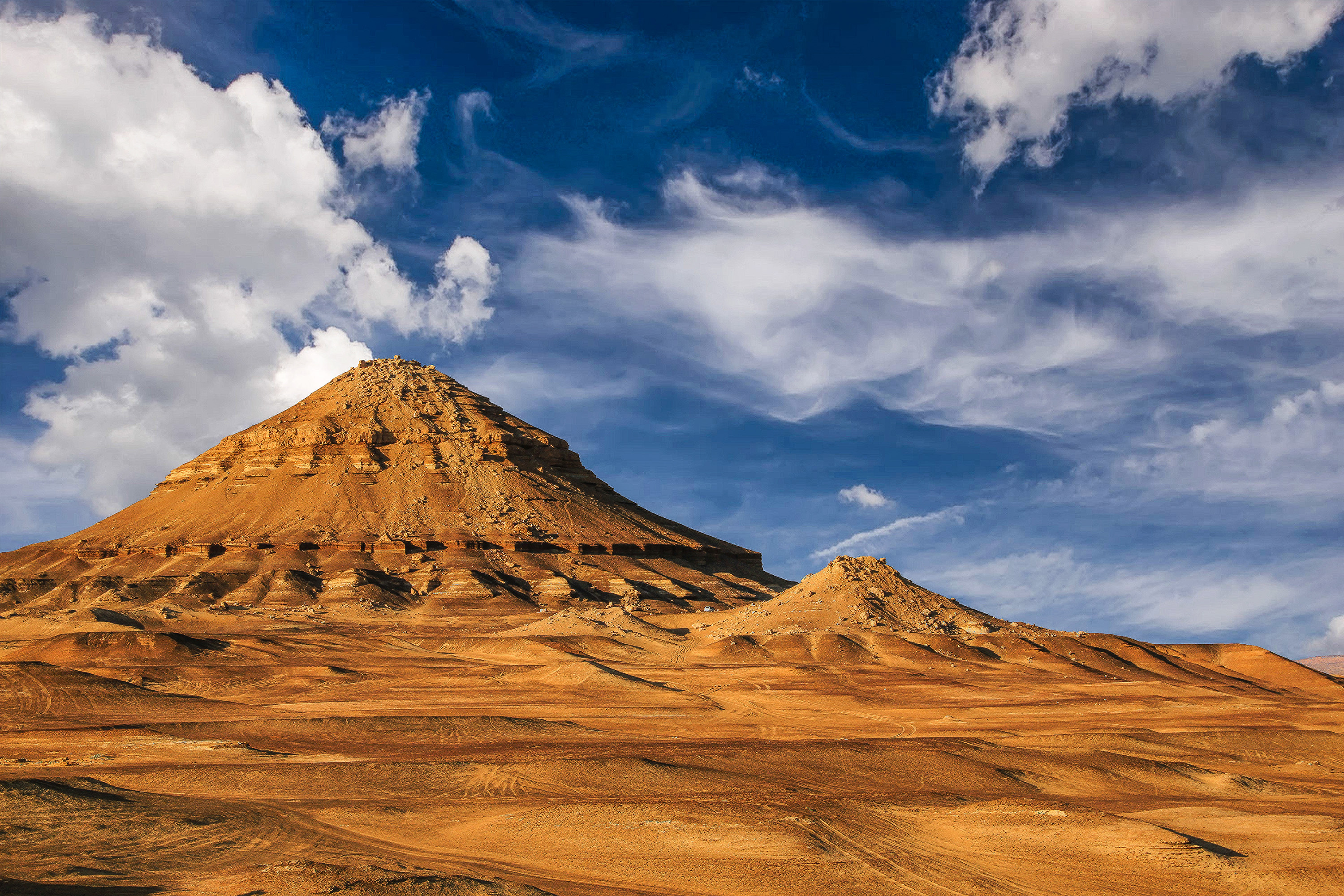 Gebel el Dist (“Pyramid Mountain”) in the northern part of the Baharyia Oasis, Egypt, seen from southwest. The flanks of that hill expose the type section of the Bahariya Formation, a siliciclastic unit of earliest Upper Cretaceous (early Cenomanian) age.